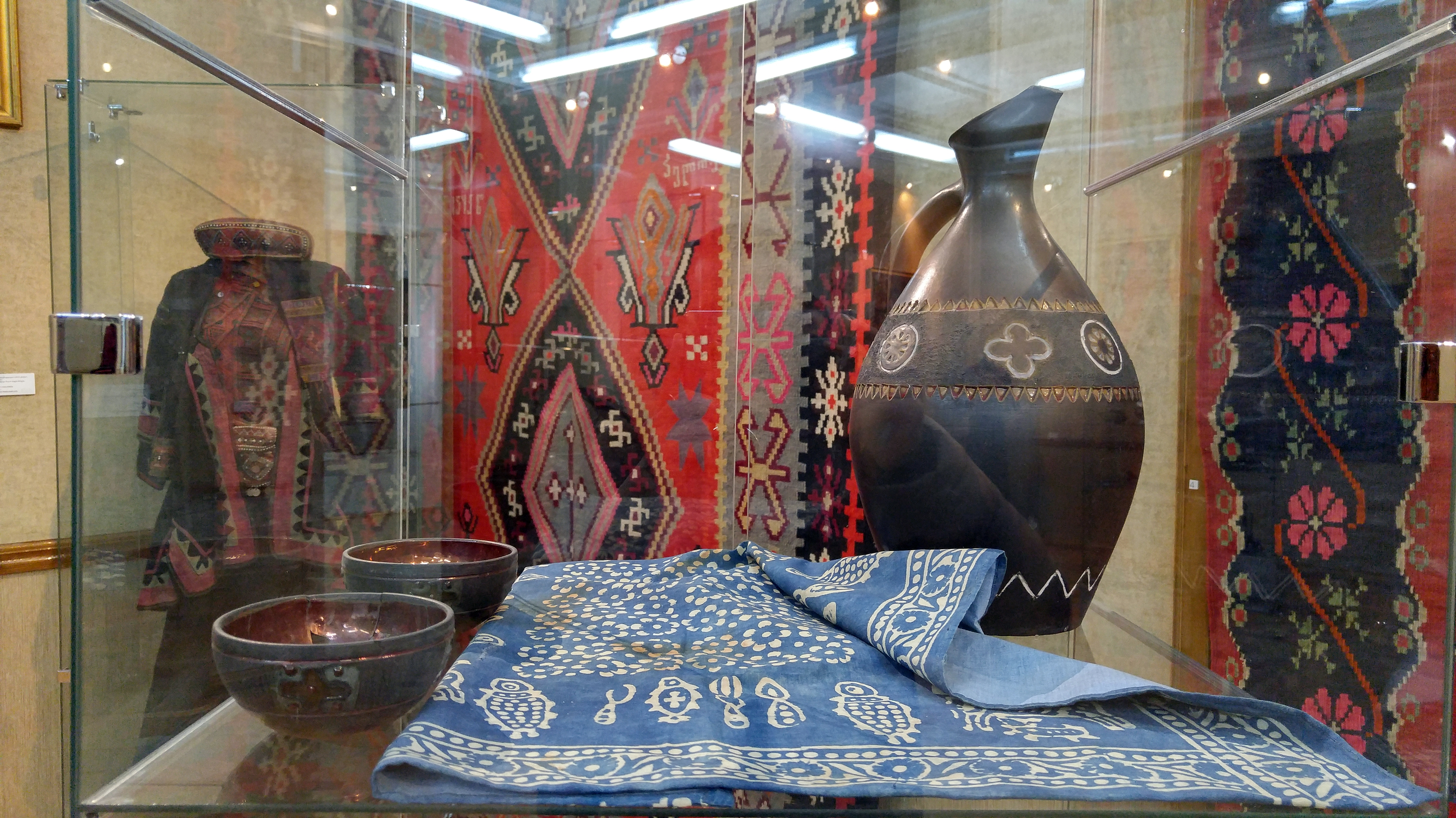 Georgian Folk Art Museum